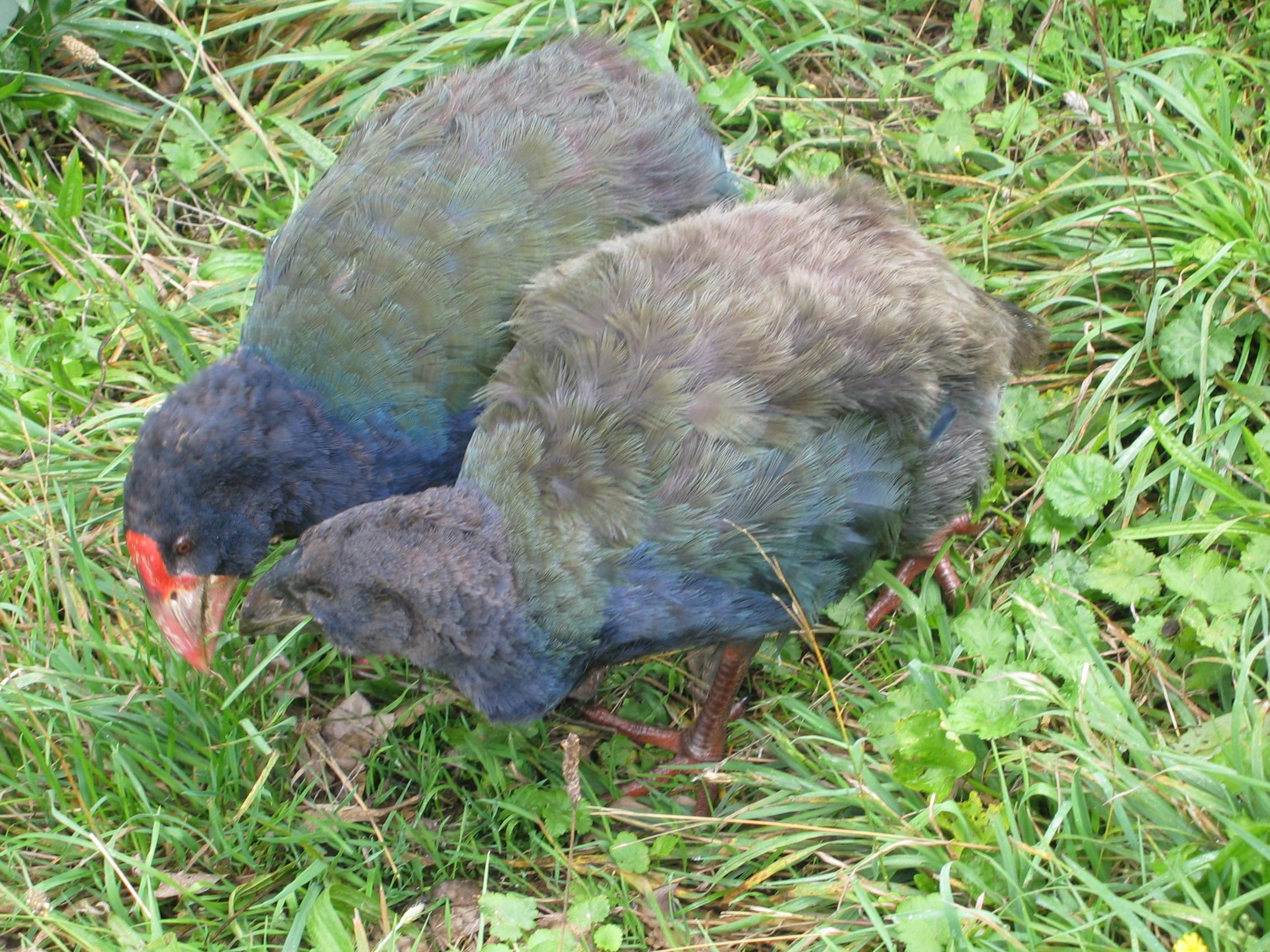 Takahe parent feeding child on Tiritiri Matangi Island, New Zealand